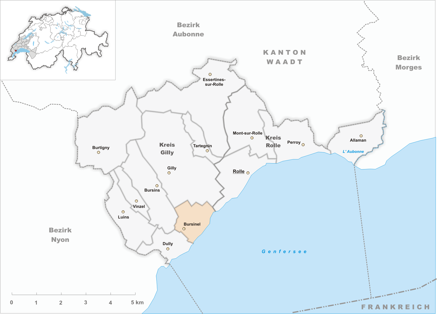 Municipality Bursinel